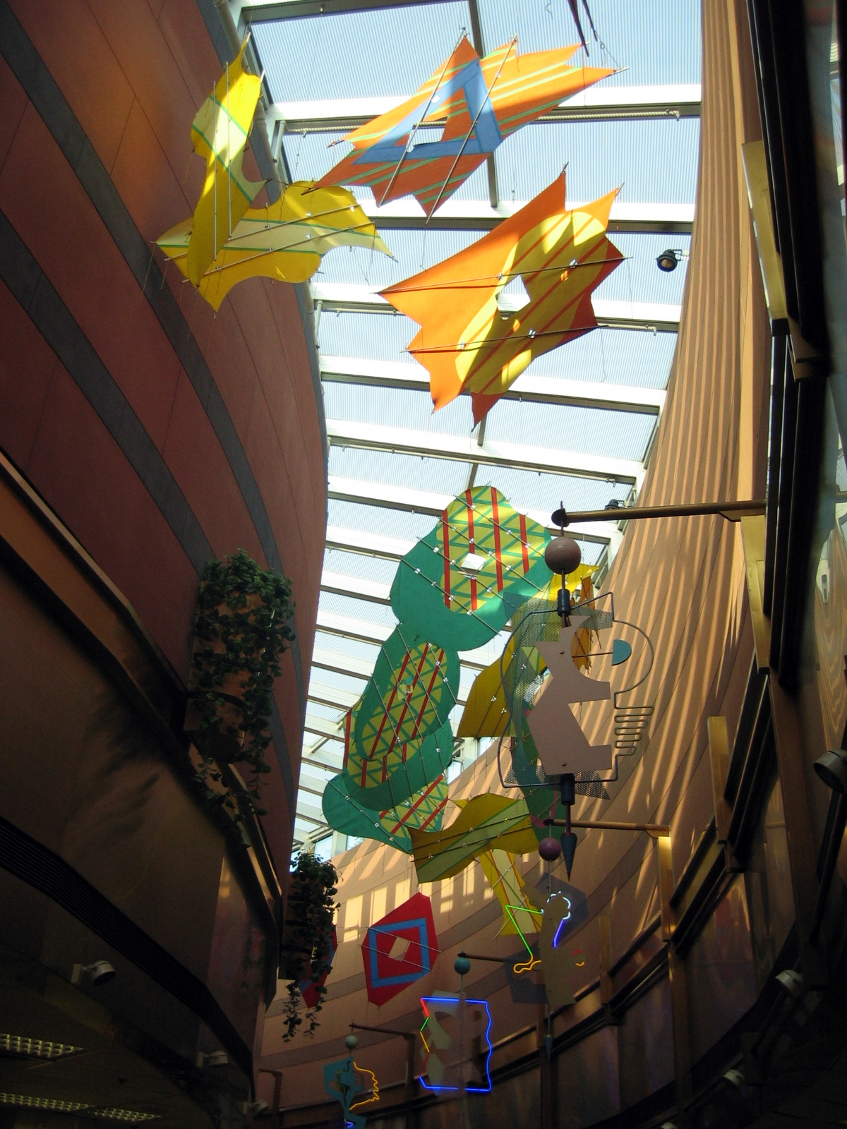 HK Peak Gallera Ceiling Decoration 山頂廣場